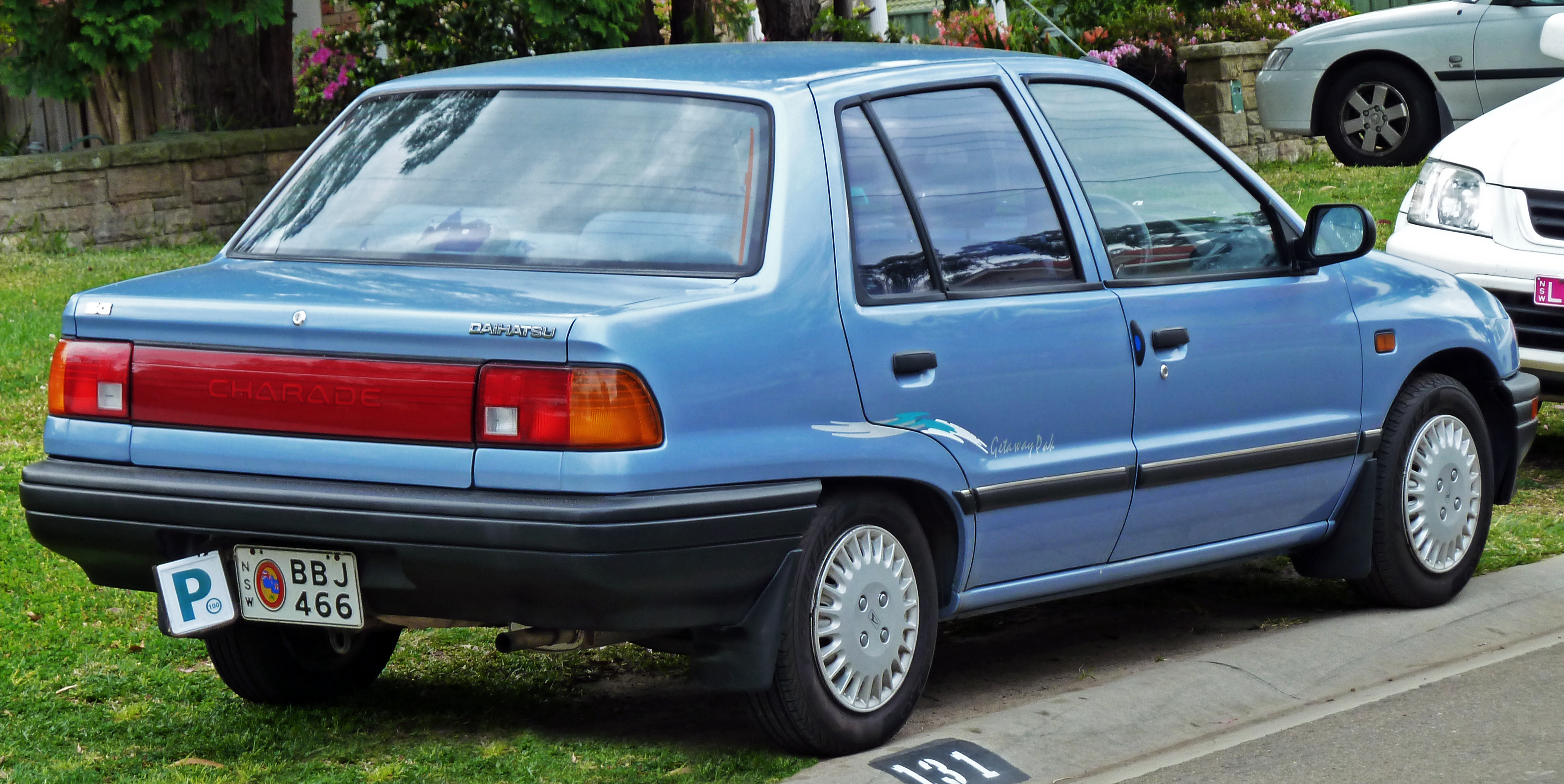 1992 Daihatsu Charade (G102) SG Getaway Pack sedan. Photographed in Gymea Bay, New South Wales, Australia.